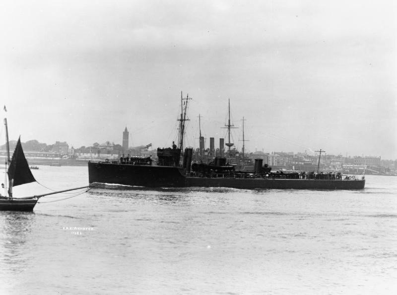 Photograph of British destroyer HMS Achates.